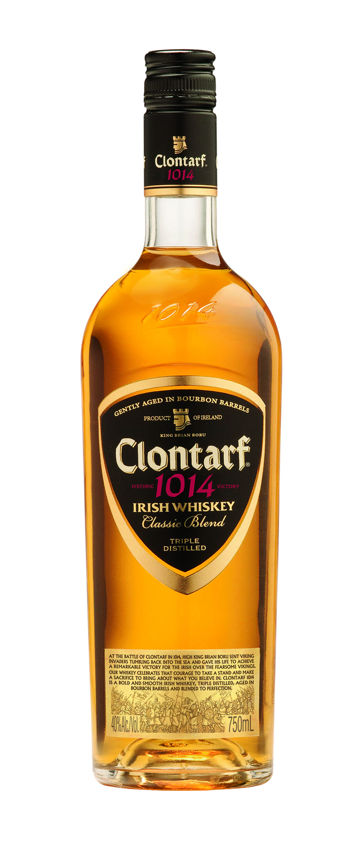 Clontarf 1014 Irish Whiskey bottle shot